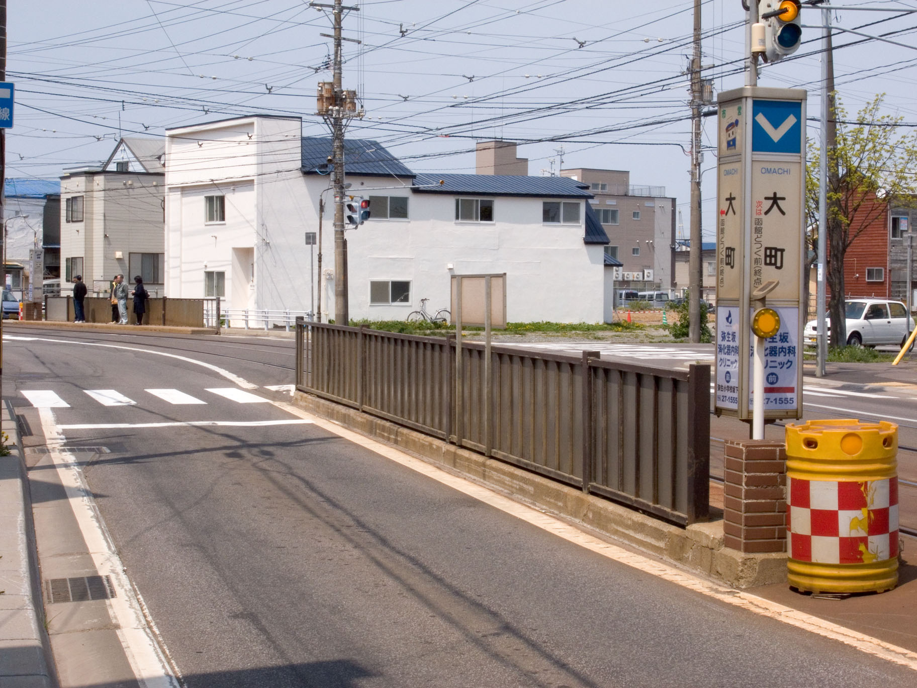 Omachi station in Hakodate tram, Hokkaido, Japan